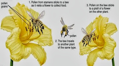 پار زیرگی